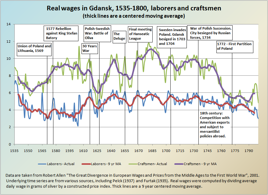 Real wages in Gdansk 1535-1800. Data from Robert Allen "The Great Divergence in European Wages and Prices from the Middle Ages to the First World War", 2001